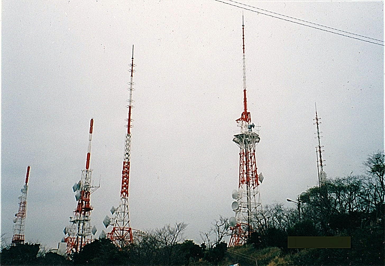 Nihondaira Television and FM broadcast stations. Shimizu-ku, Shizuoka.